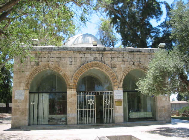 Tomb of Raban Gamliel in Yavneh